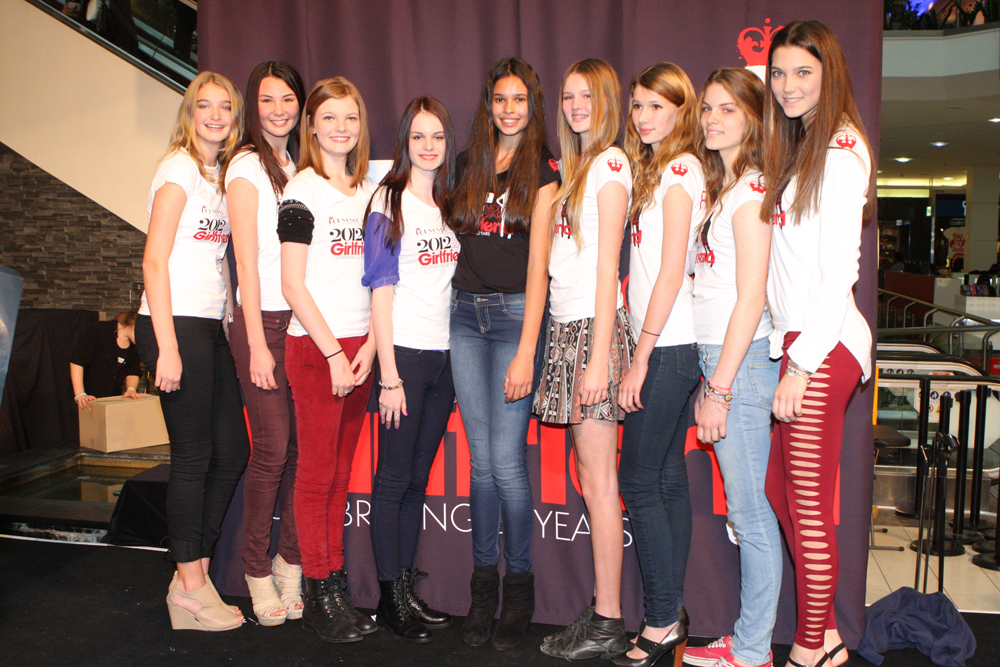 2012 Girlfriend Rimmel Model Search arrives at Parramatta Westfield, Sydney. (Probably among the candidates: Elizabeth Love, Sharnee Gates, Georgana Coles, Jade Burton, Jessica Picton-Warlow, Molly Grace Nylander, Stephanie Field)